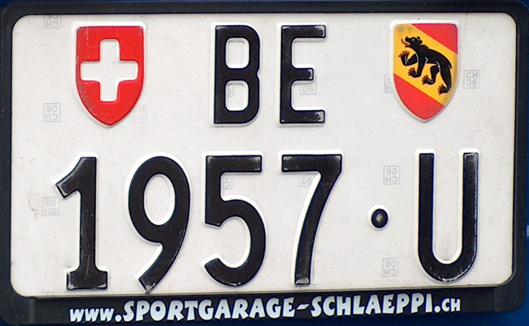 Swiss license plate for rental cars, BE = Canton of Bern, U = Dealer plate